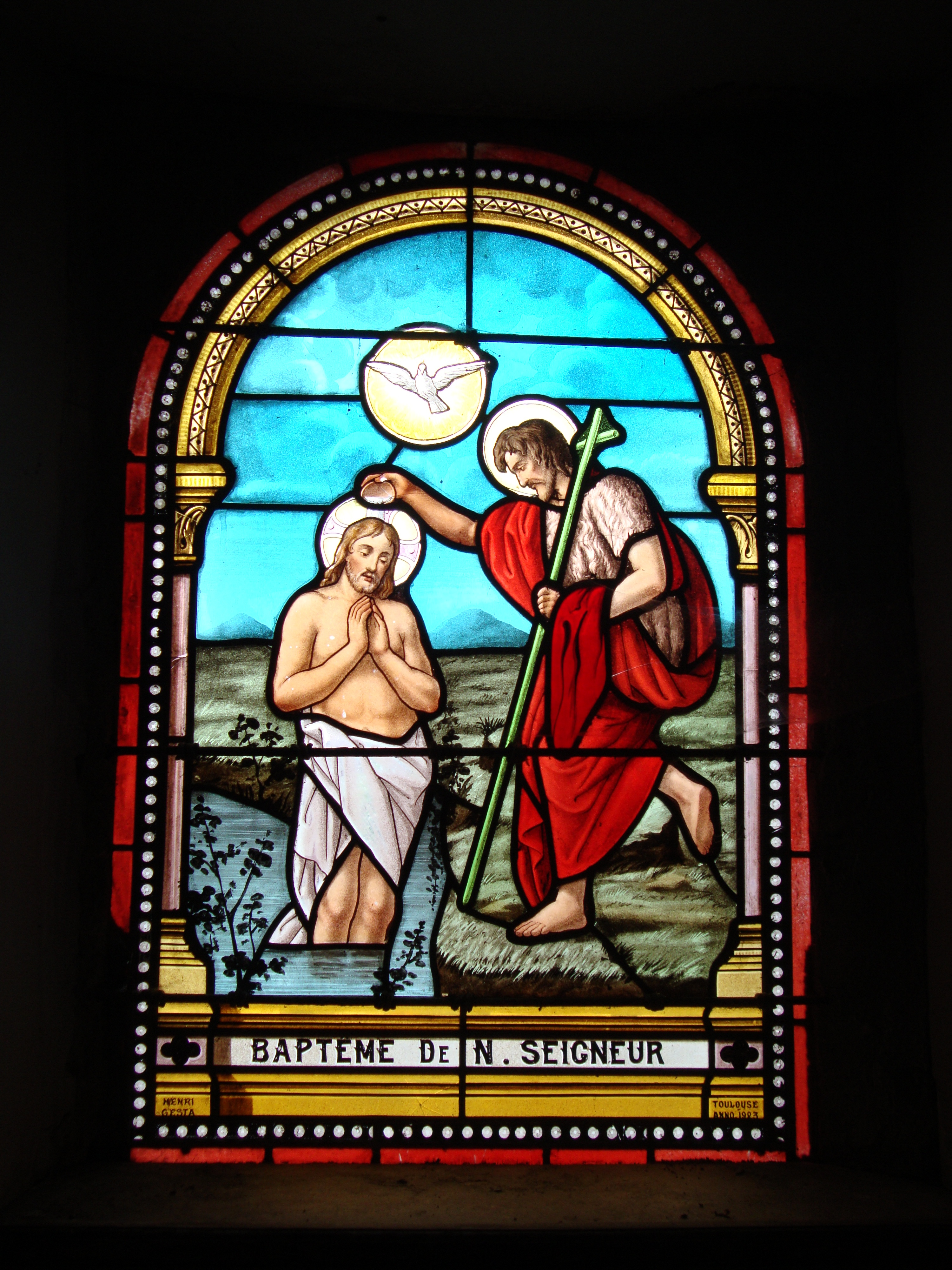 Irissarry (Pyr-Atl, Fr) vitrail Église Saint-Jean-Baptiste: baptême du Christ, signature: "HENRI GESTA TOULOUSE ANNO 1923"